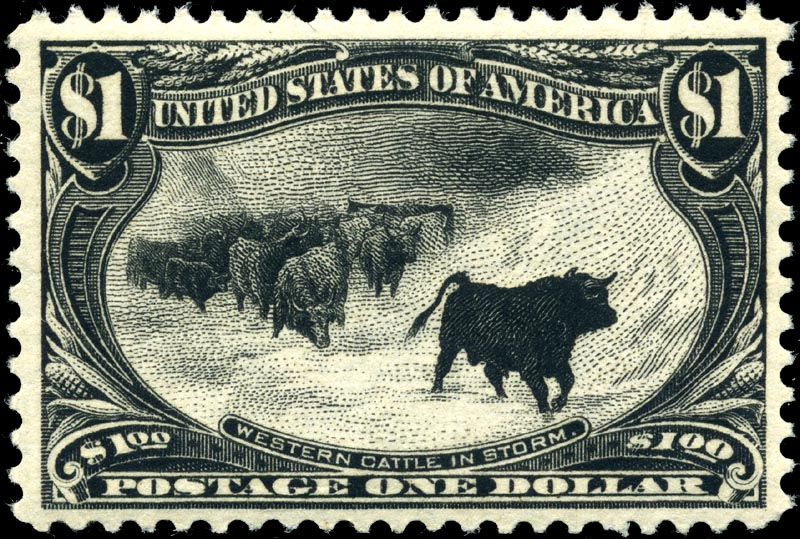 United States 1-dollar stamp of 1898 Trans-Mississippi issue;Known as the "Black Bull", this is often considered the finest design ever seen on a US stamp.